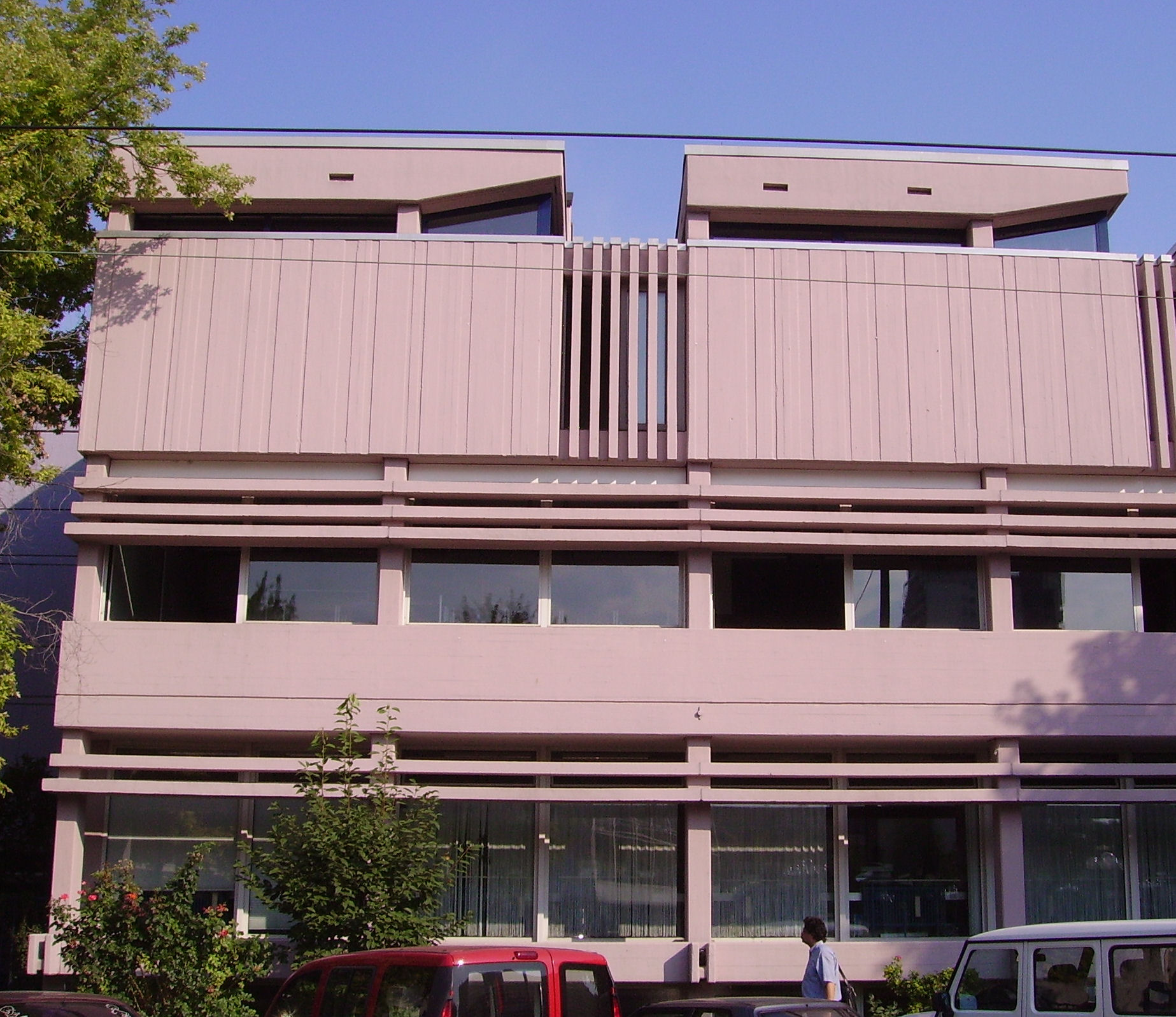 building in Ludwigshafen, Germany